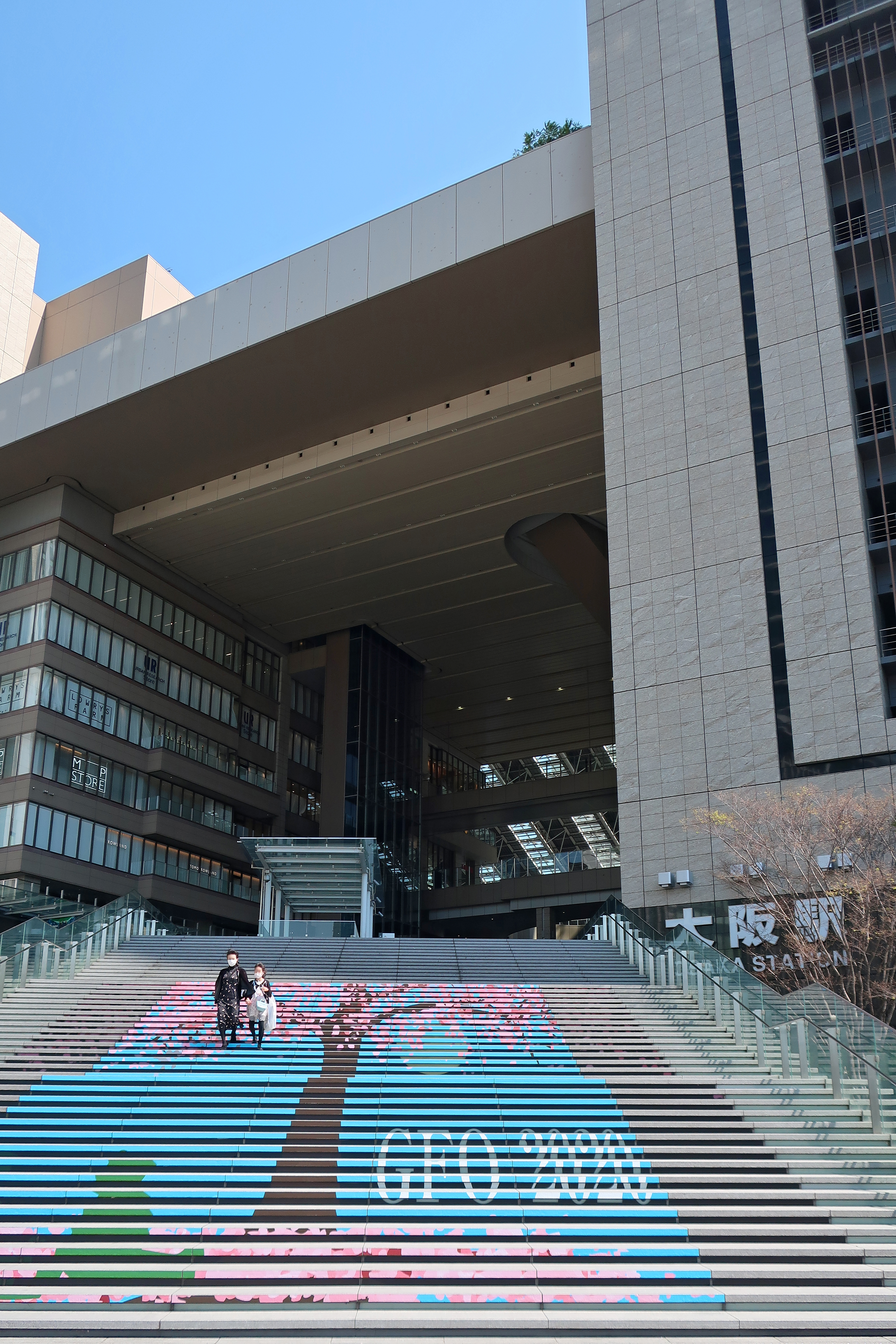 Osaka Station, Osaka, Osaka prefecture, Japan Canon PowerShot G9 X Mark II